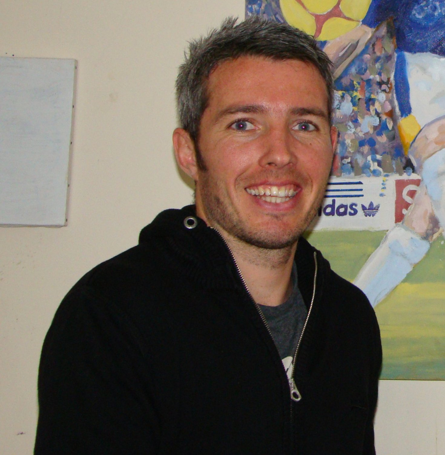 04/05/11 Kevin McNaugton with his painting